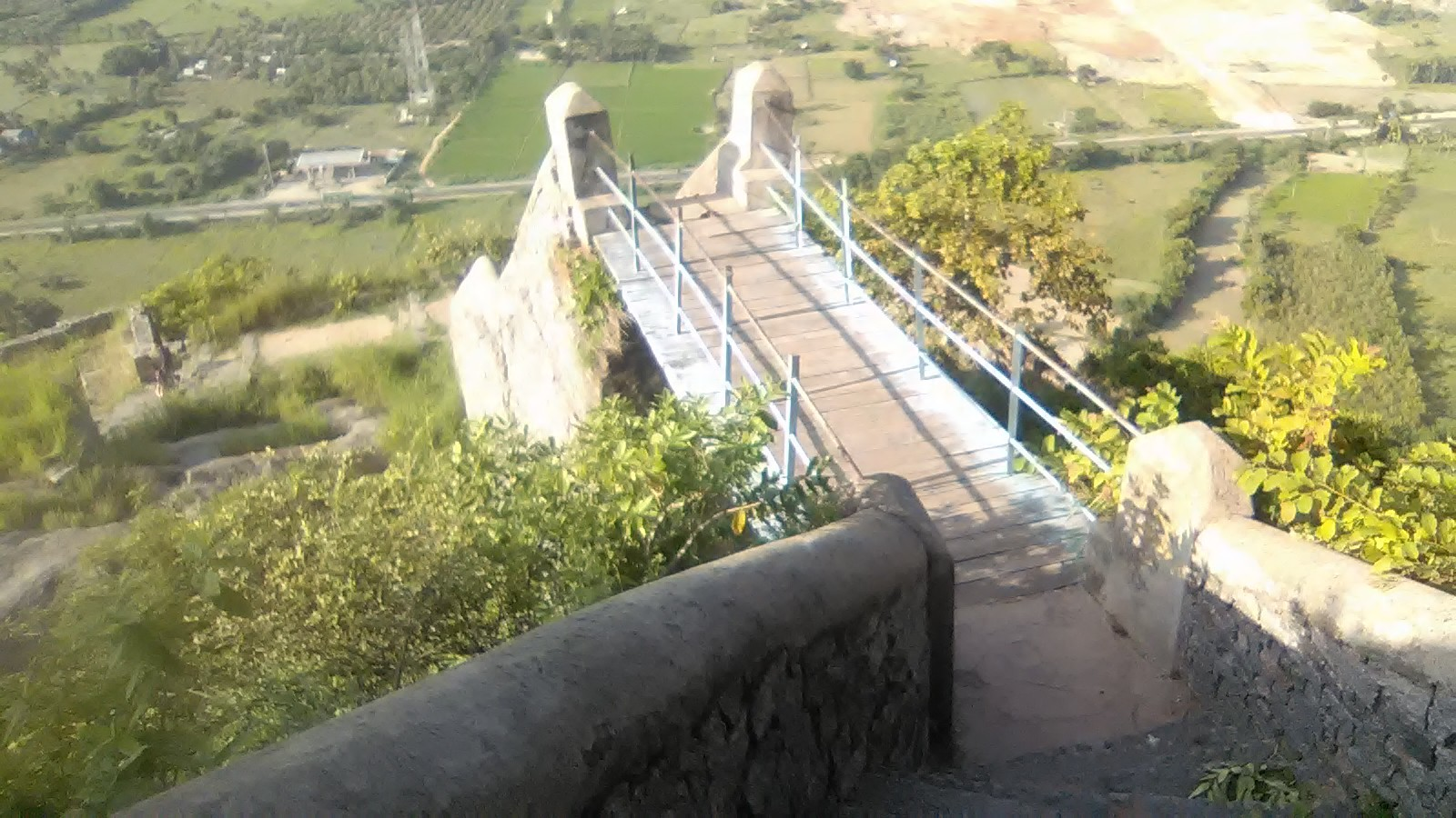 செஞ்சிக் கோட்டை இழுவைப் பாலம்